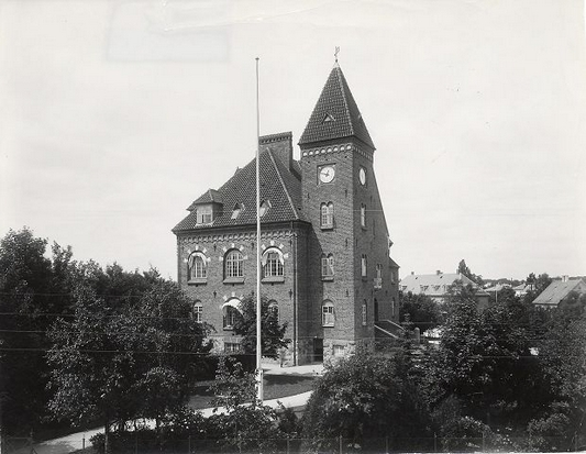 The old Town Hall in Gentofte Kommune, Denmark